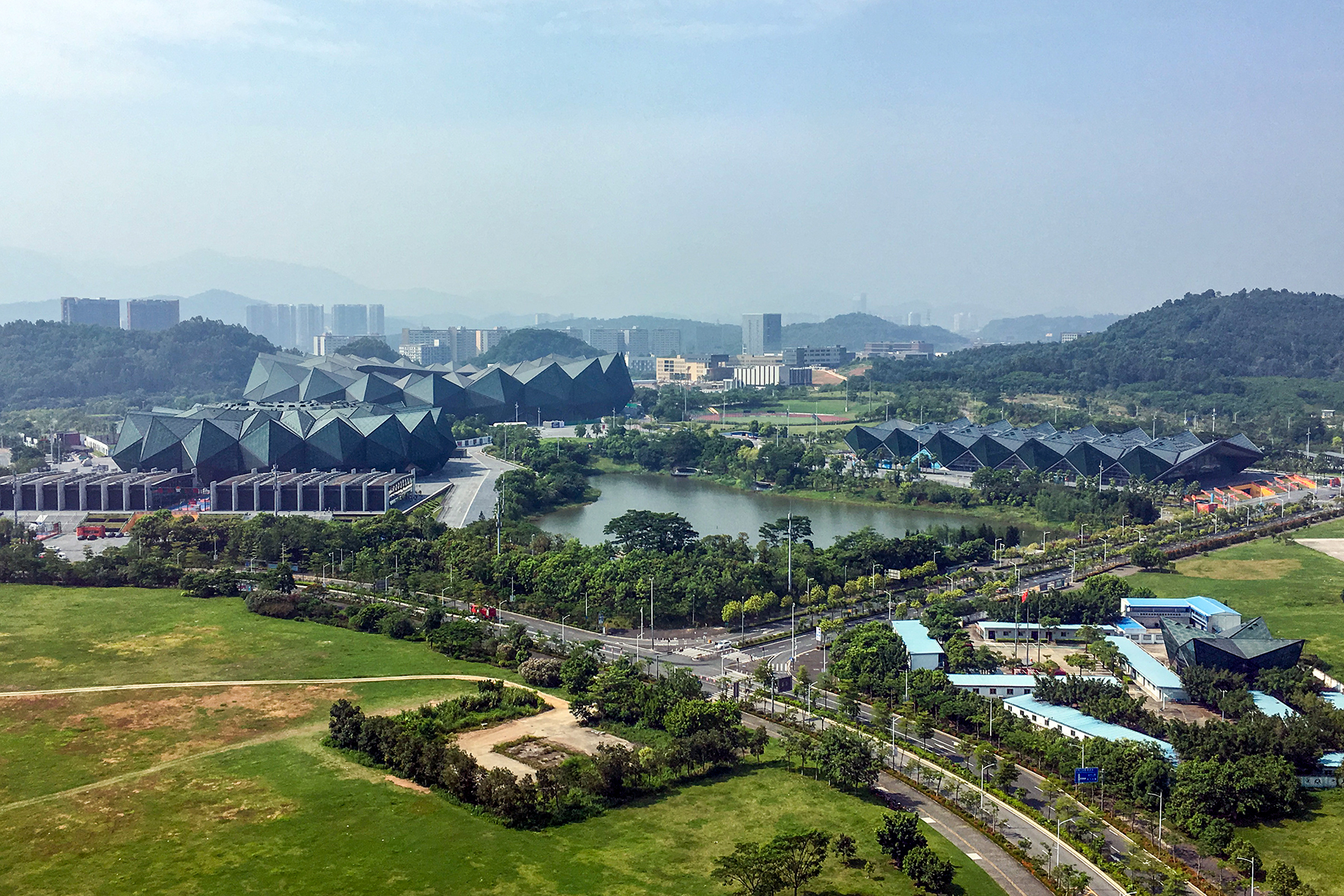 Aerial view of Shenzhen Universiade Sports Centre